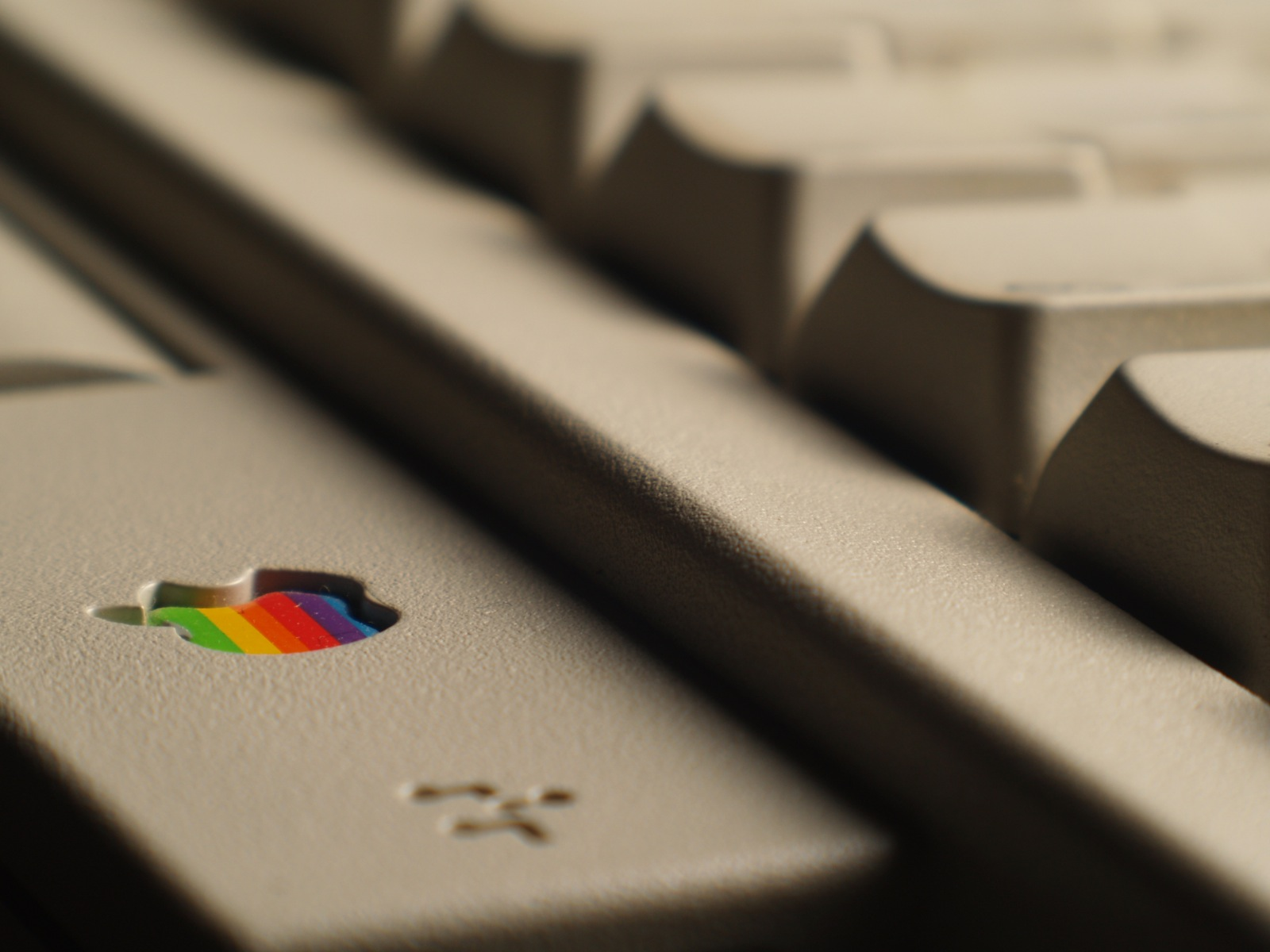 Apple Keyboard II Olympus E-500 con Soligor OM 75-250@75mm in macro 1:1,8 f/11 1/160" Flash da studio con bank.